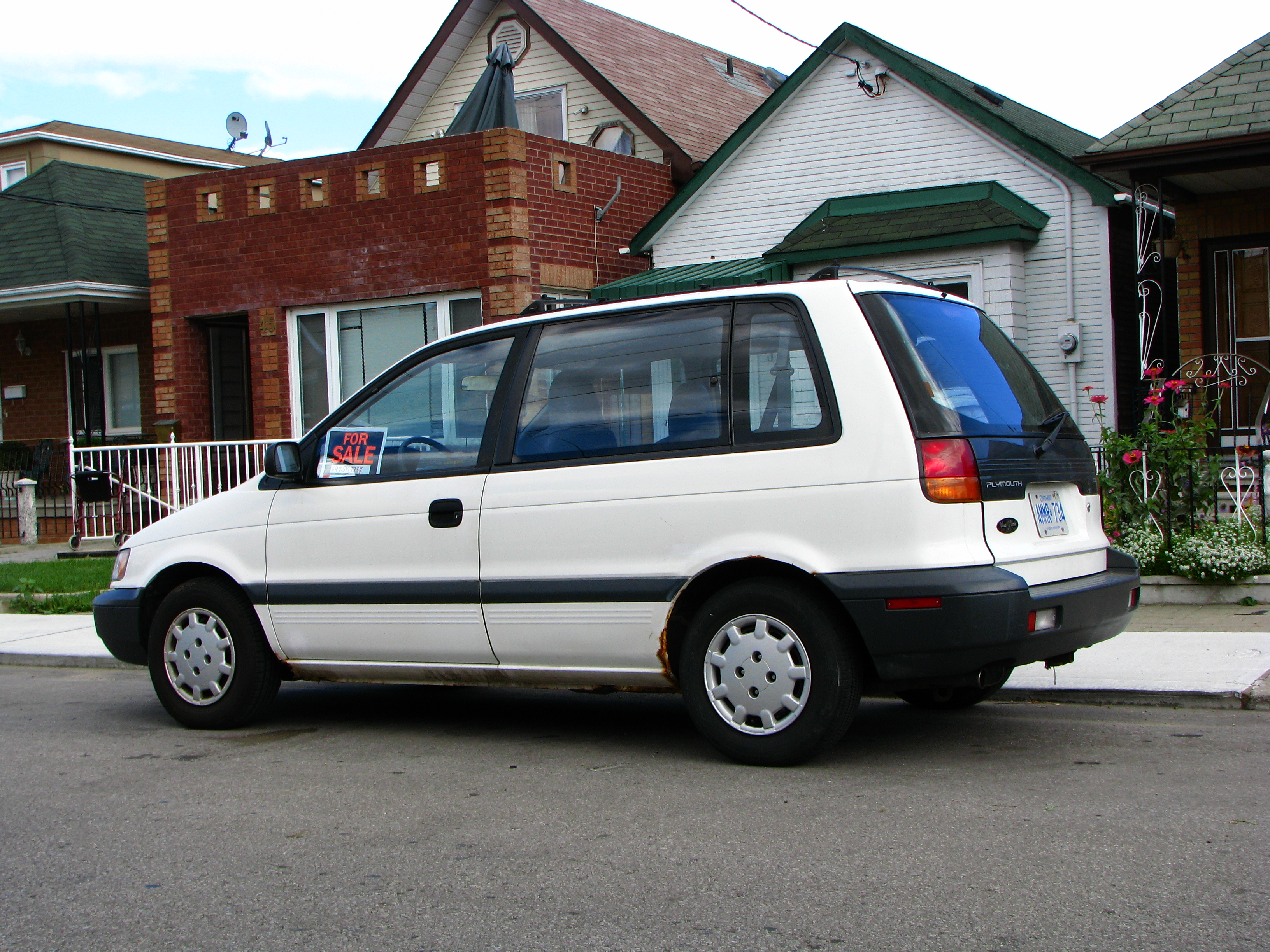 Also known as: Mitsubishi Space Runner Mitsubishi Space Wagon (LWB version) Mitsubishi Expo LRV Eagle Summit LX Dodge Colt Vista Mitsubishi RVR